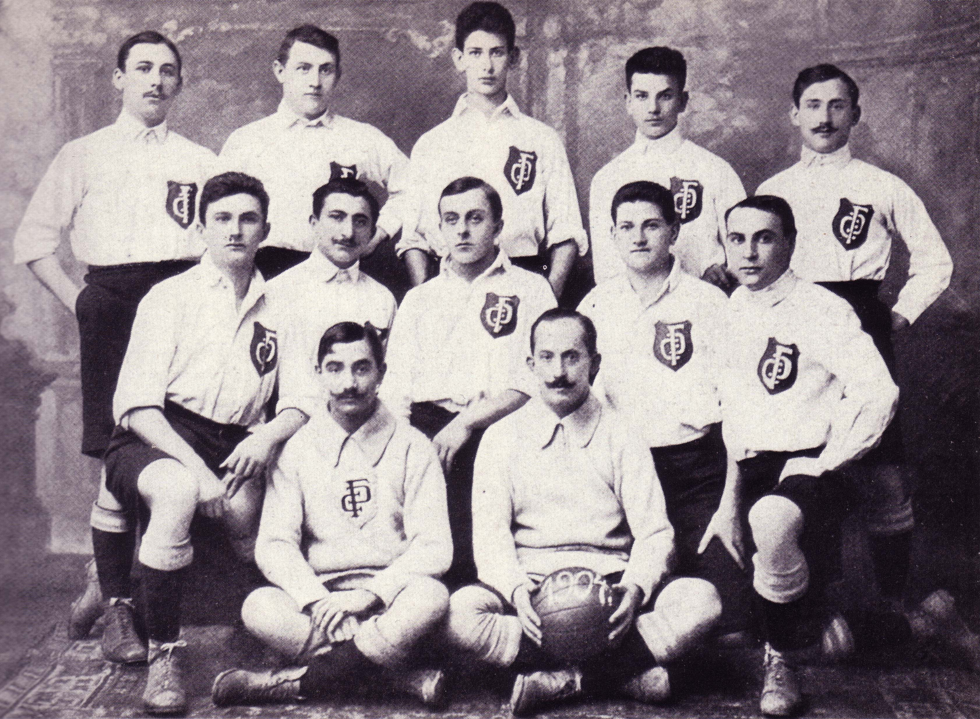 DFC Prag in 1904; The most successful association football team of the Austrian-Hungarian monarchy. Players are: Fischer, Sedlaczek, Dr. Fischl, Meissner, Weil; Schwarz, Österreicher, Kurpiel, Dr. Frey, Robicek; Eisenstein, Pick.